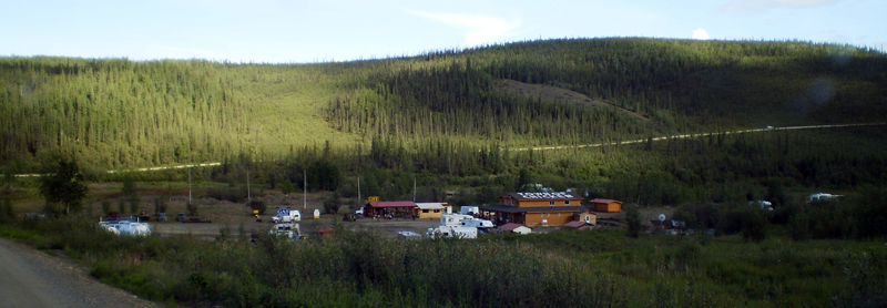 Chicken, Alaska